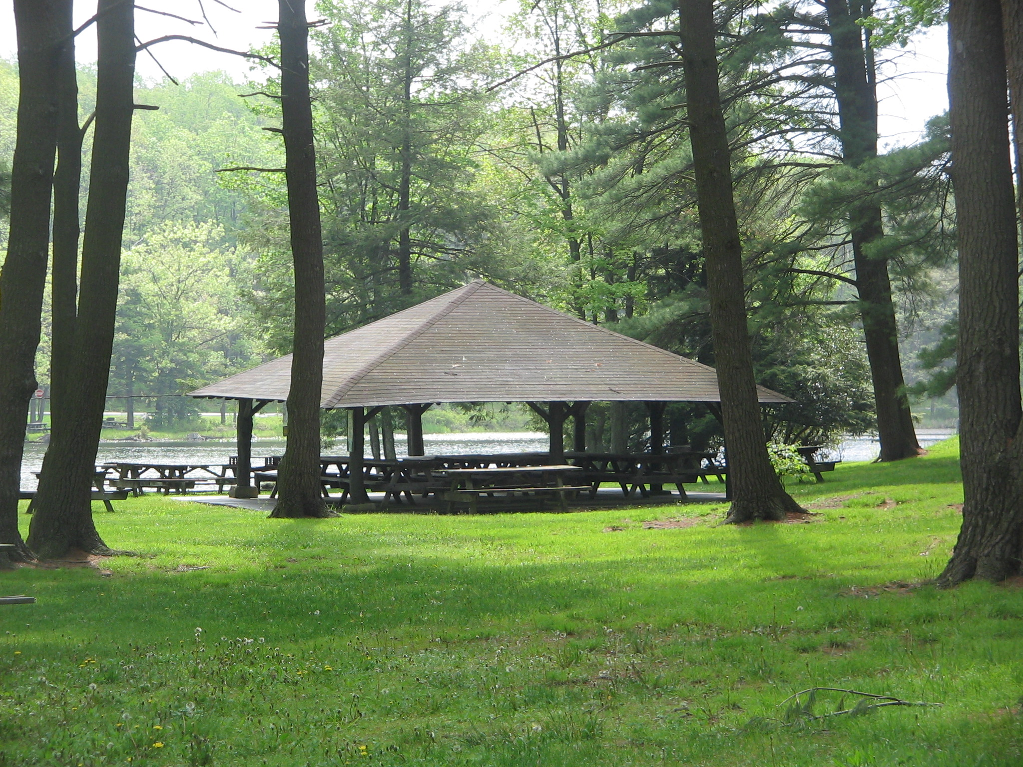 Picnic Shelter Number 4 at Black Moshannon State Park, near Phillipsburg, Rush Township, Centre County, Pennsylvania, USA.